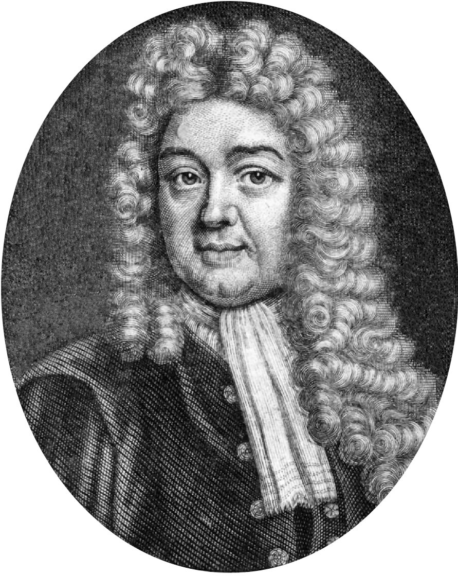 John Radcliffe (English physician). From